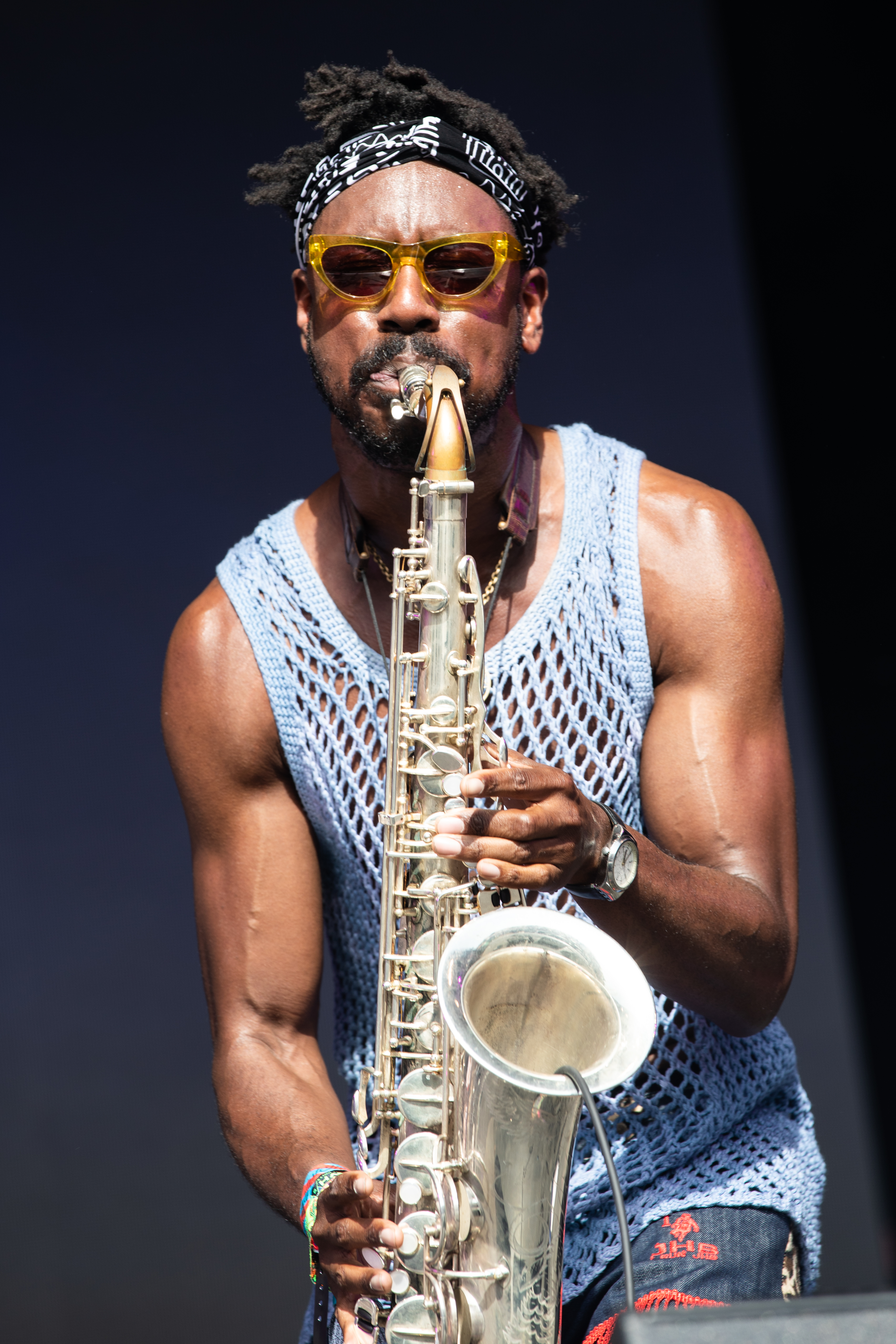 The Comet Is Coming West Holts Stage Glastonbury 2019